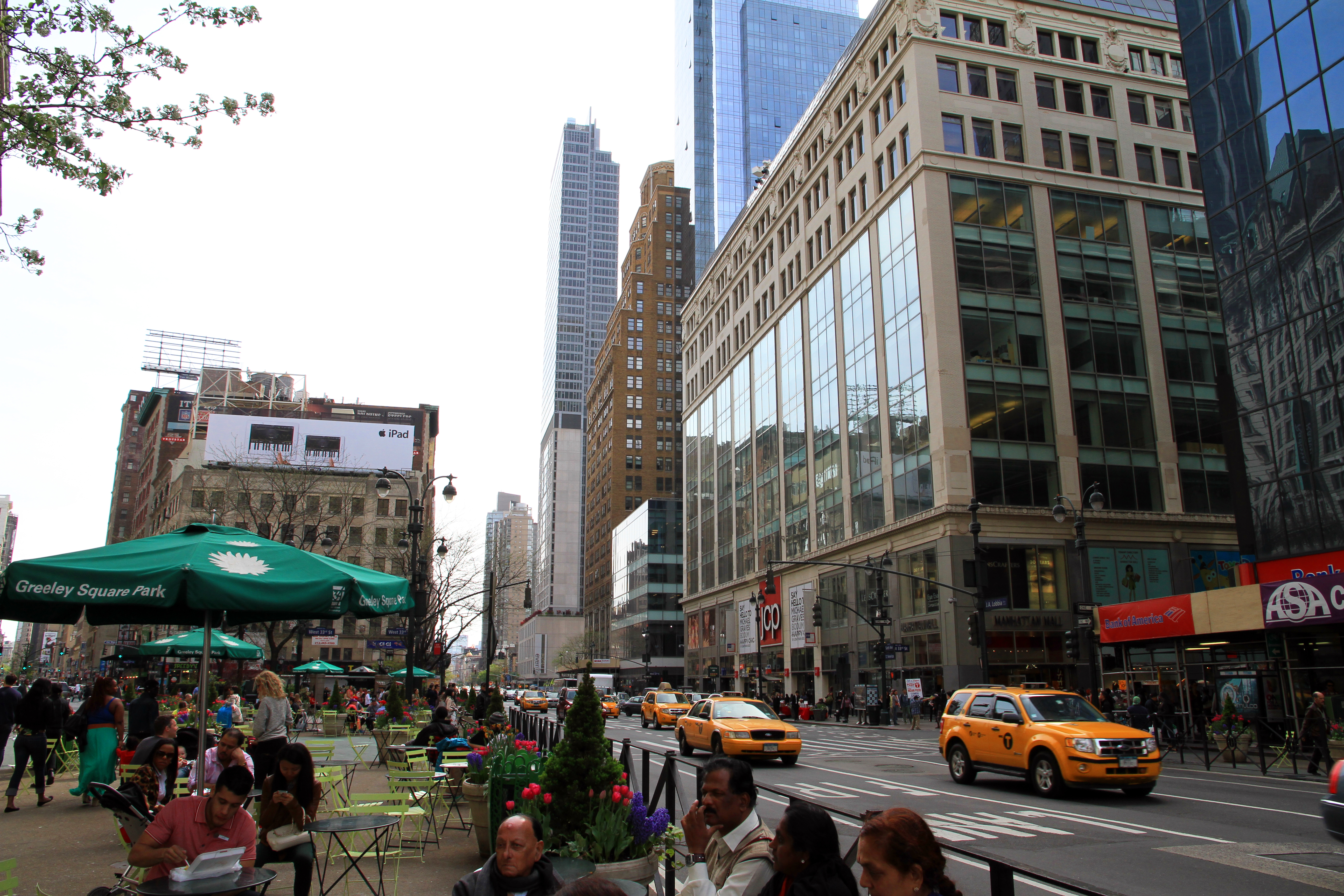 6th Avenue